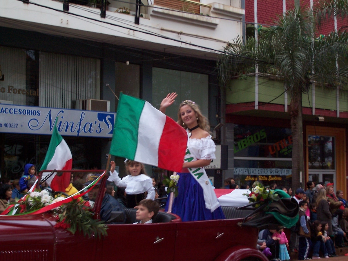 Juliana Sansaloni, queen of the Italian colectivity, during the inaugural parade of XXVI Immigrant's National Festival, in Oberá, Misiones, Argentina.